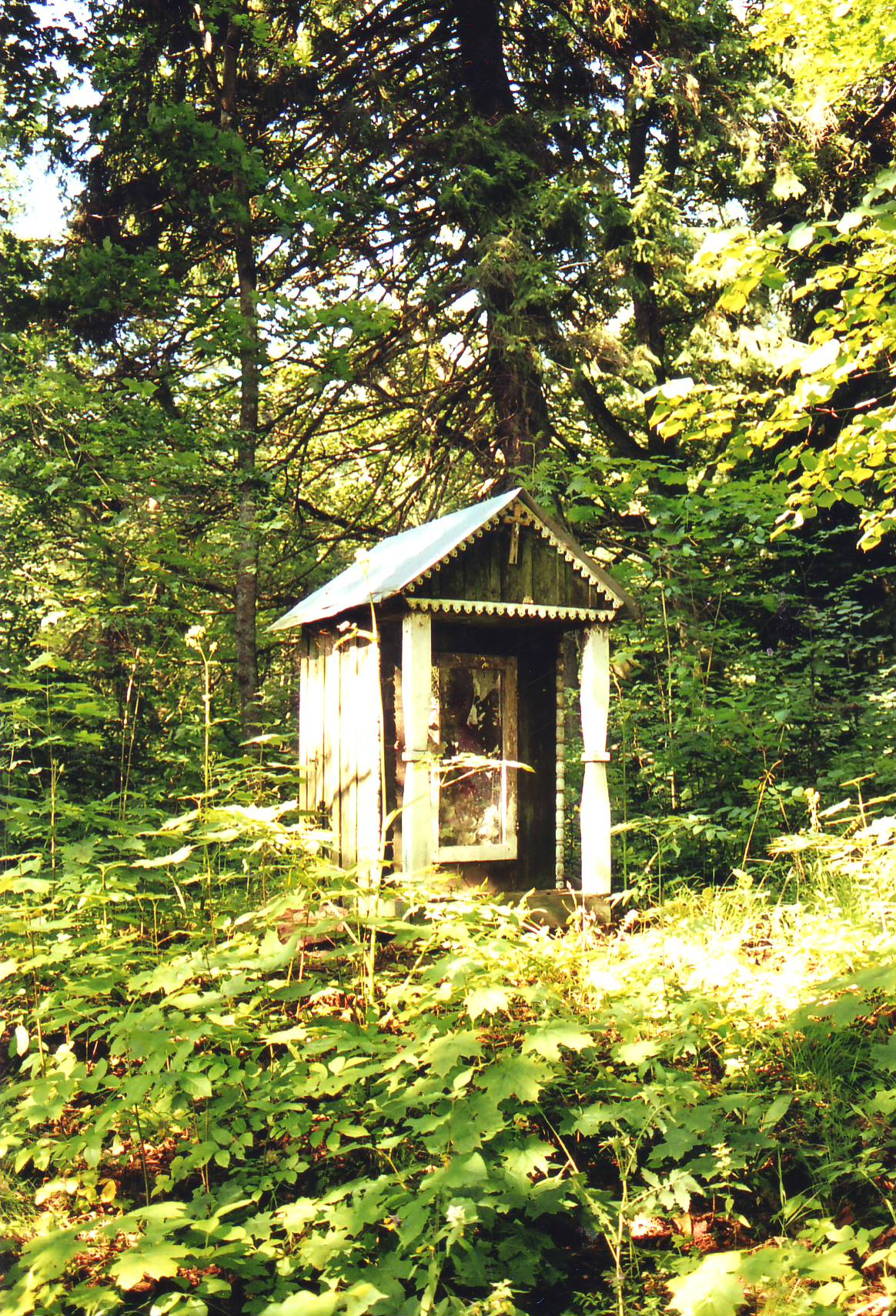 Vaineikių Medsėdžiai, Kretinga district, Lithuania